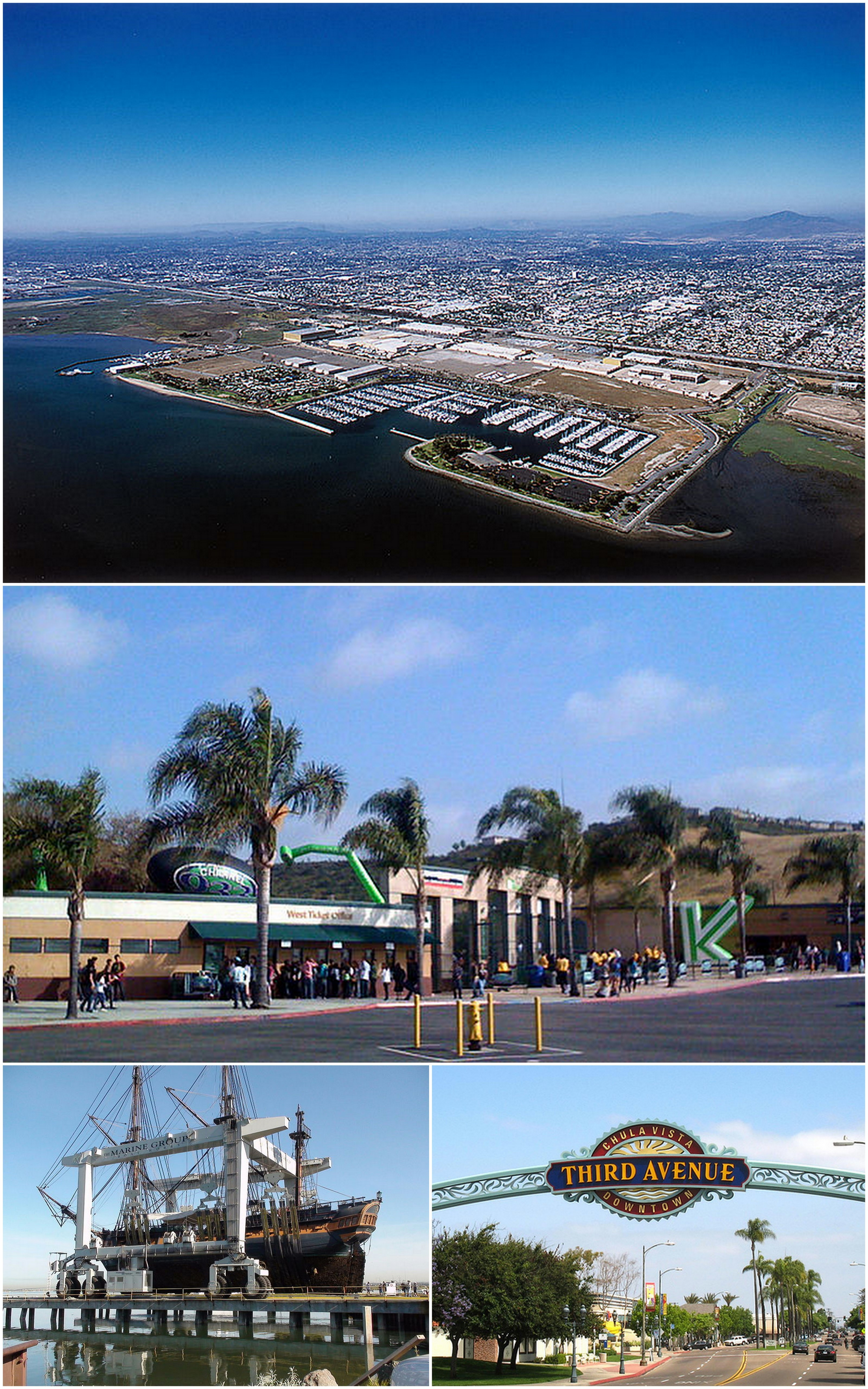 Montage of Chula Vista pictures on commons